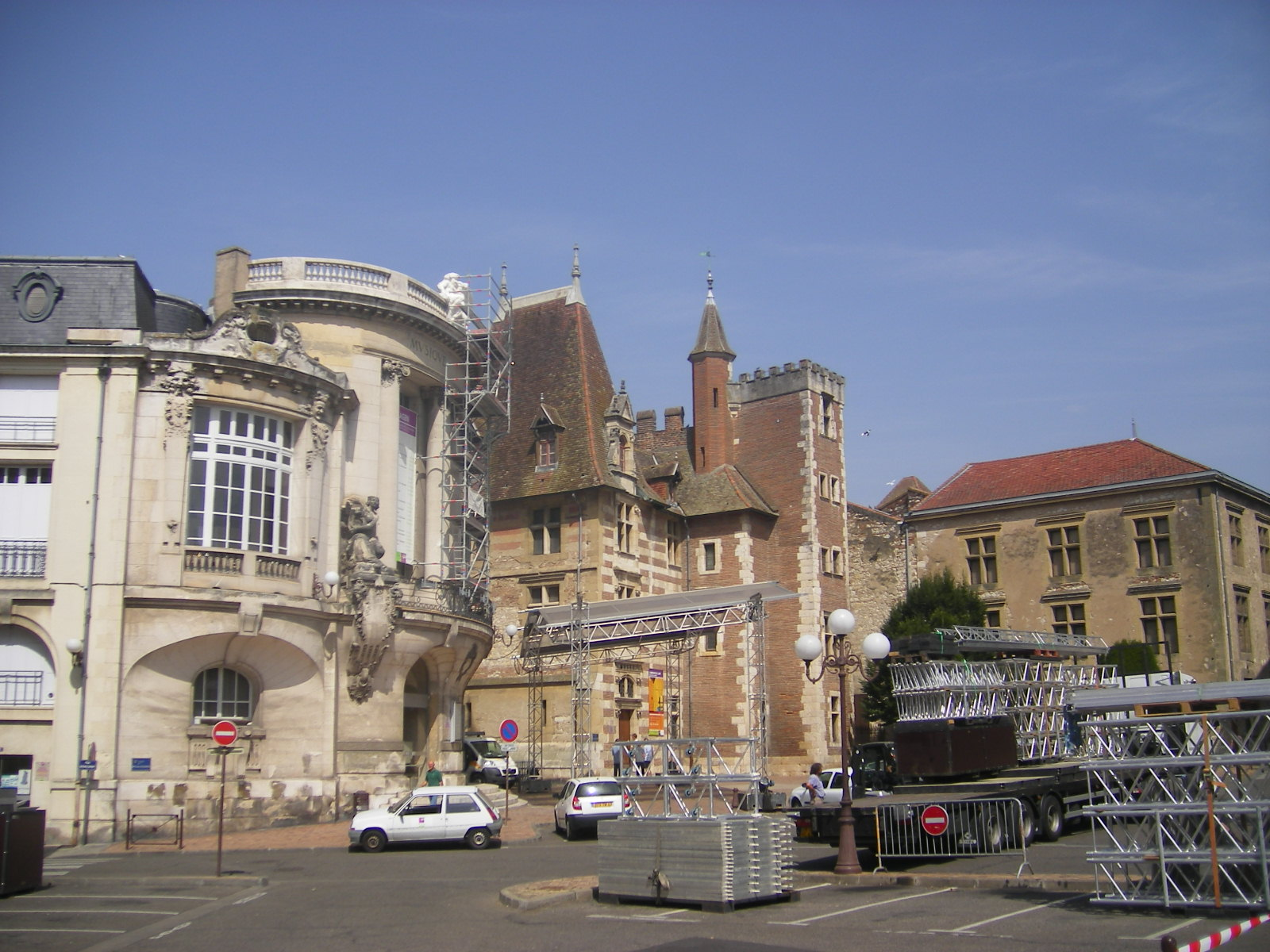 Agen, Museum of Fine Arts and Theatre